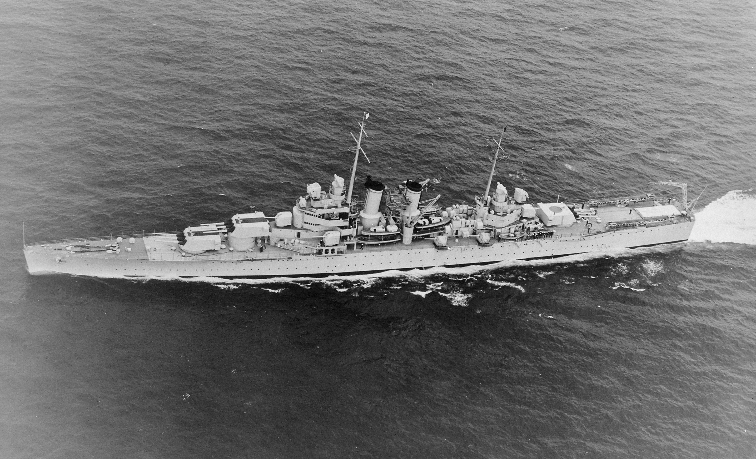 The U.S. Navy heavy cruiser USS Wichita (CA-45) operating in the Atlantic Ocean, out of Norfolk, Virginia (USA), on 1 May 1940. Note the markings on her turret tops (bars on the forward turrets, a circle on the after turret). These scheme was used on several other heavy cruisers in 1939-40.